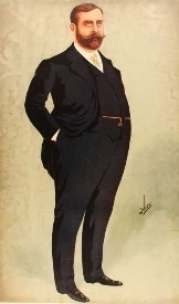 Men of the Day No.1286: Caricature of Frank Matcham. Caption reads: "Architect Matcham"